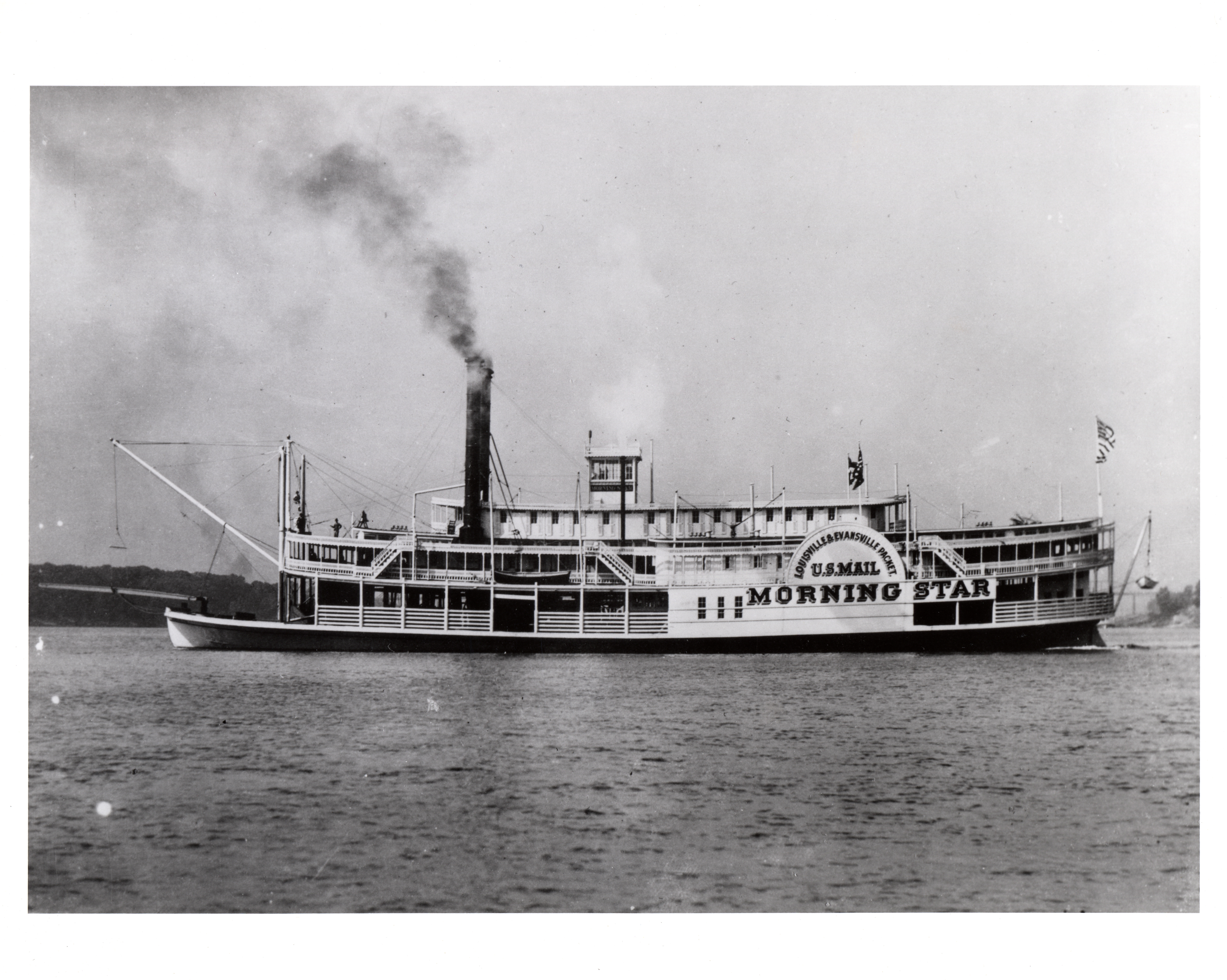 Description: This is an image of the Louisville and Evansville mail packet boat, "Morning Star" on the Ohio River. Creator/Photographer: Unidentified photographer Medium: Black and white photographic print Culture: American Geography: USA Date: 1858 Collection: U.S. Mail Packets and Boats Repository: National Postal Museum Accession number: A.2006-93